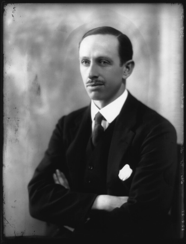 Lord Salisbury